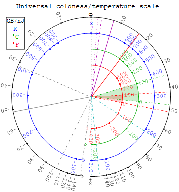 Universal coldness/temperature scale in SI units, where coldness[1][2][3][4][5][6] is one possible name for reciprocal-temperature[7] in non-thermal units[8] i.e. β ≡ 1/kT ≡ 1/k dS/dE. This energy uncertainty-slope dS/dE approaches a common value for systems that randomly (or thermally) share energy E, since heat energy naturally flows from low (even negative) to high coldness (toward more "choice of open-slots" or "ways to play", and therefore clockwise) until sharing systems reach a common (equilibrium) value of this slope. Bottom line: 1 Kelvin of ambient temperature requires one to thermalize about 76.5594 picoJoules of ordered energy for every teraByte of subsystem correlation-information created, and 1 nanoJoule/Kelvin of information takes up about 13.0618 teraBytes of memory.